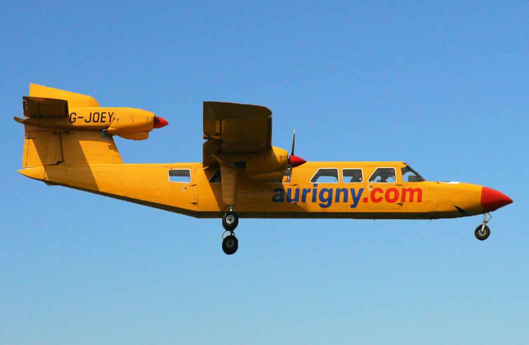 G-JOEY